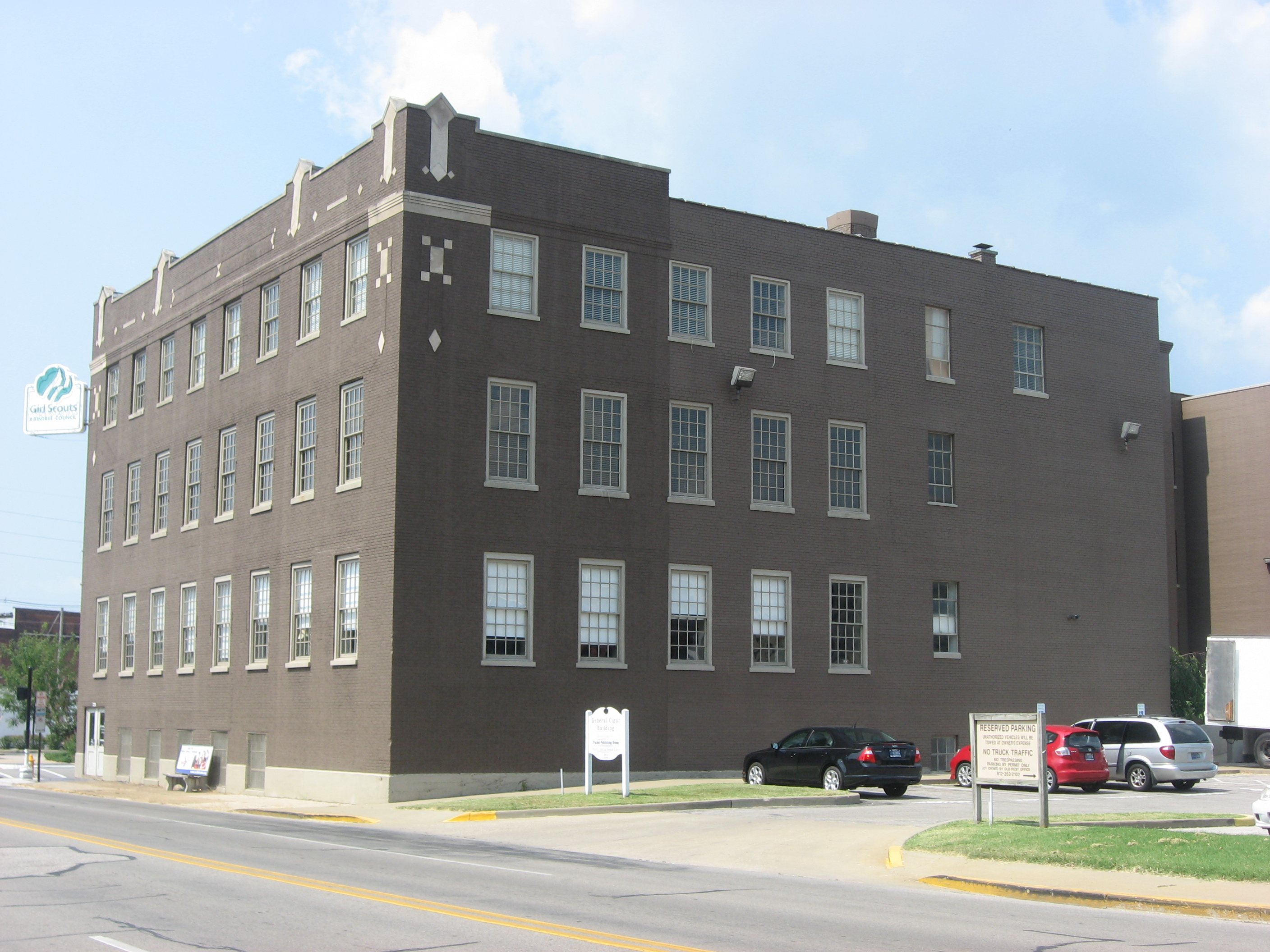 Front and southeastern side of the General Cigar Company, located at 223 NW. Second Street in Evansville, Indiana, United States. Built in 1902, it is listed on the National Register of Historic Places.